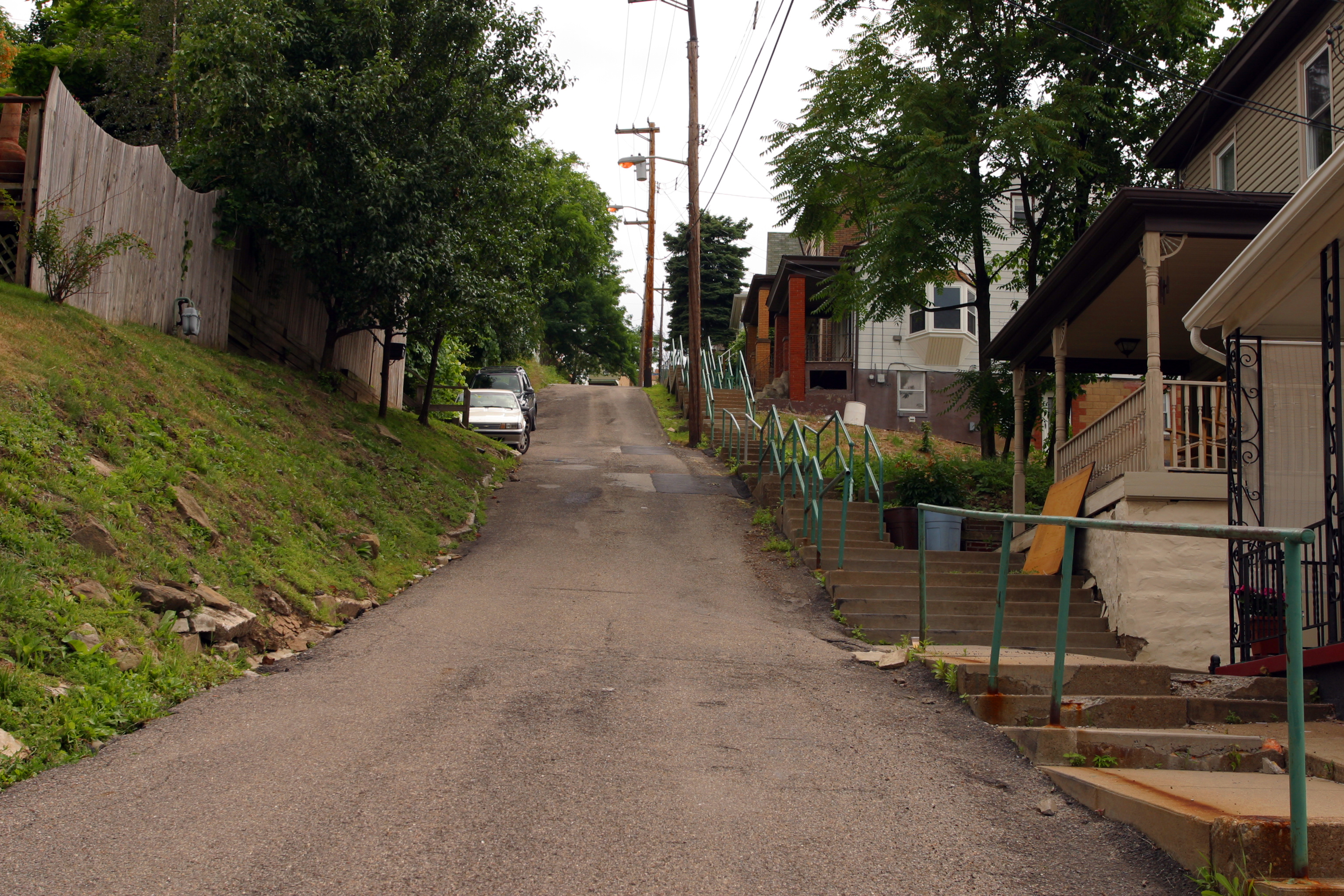 A steep street (Sterling St.) in Southside Slopes showing the staircase sidewalk.